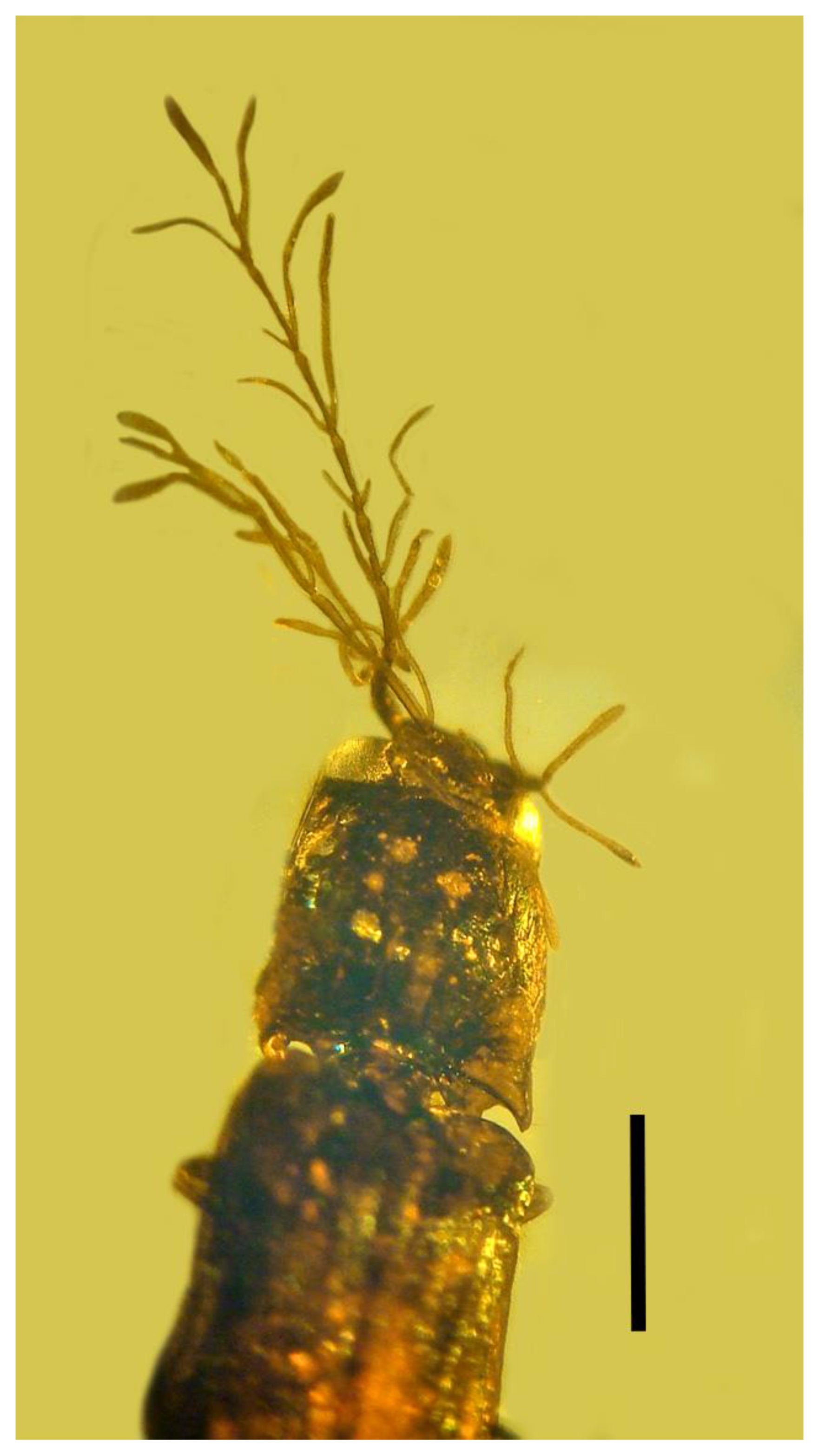 A trichomycete, Priscadvena corymbosa (Priscadvenales: Priscadvenaceae) emerging from the oral cavity of an elaterid beetle (Coleoptera: Elateridae) in Burmese amber. Scale bar = 1.0 mm.